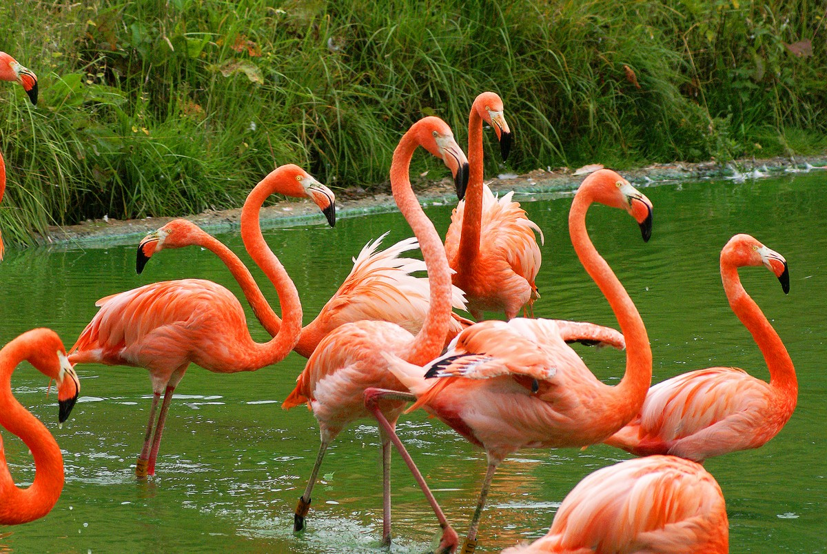 Caribbean flamingo at Whipsnade Zoo